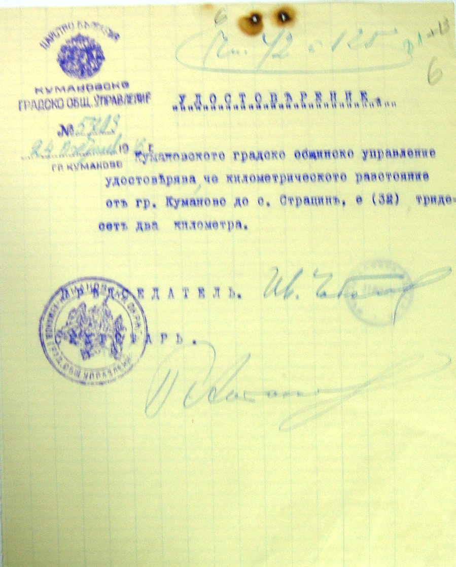 Document sealed with stamp of Kumanovo City municipal government, from October 24, 1916. It contains information that the distance between Kumanovo and Stracin village is 32 km away. This media file is produced by Wikipedian in Residence in Category:Wikipedian in Residence at DARM in 2016.